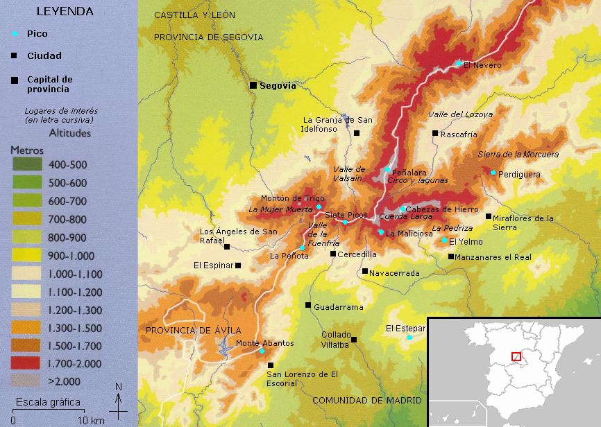 Map (in Spanish) of the Sierra de Guadarrama range. Located in the center of Spain.